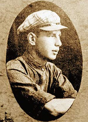 Osip Shor, Soviet/Russian/Ukrainian police inspector, former conman, more famous by being prototype of Ostap Bender.